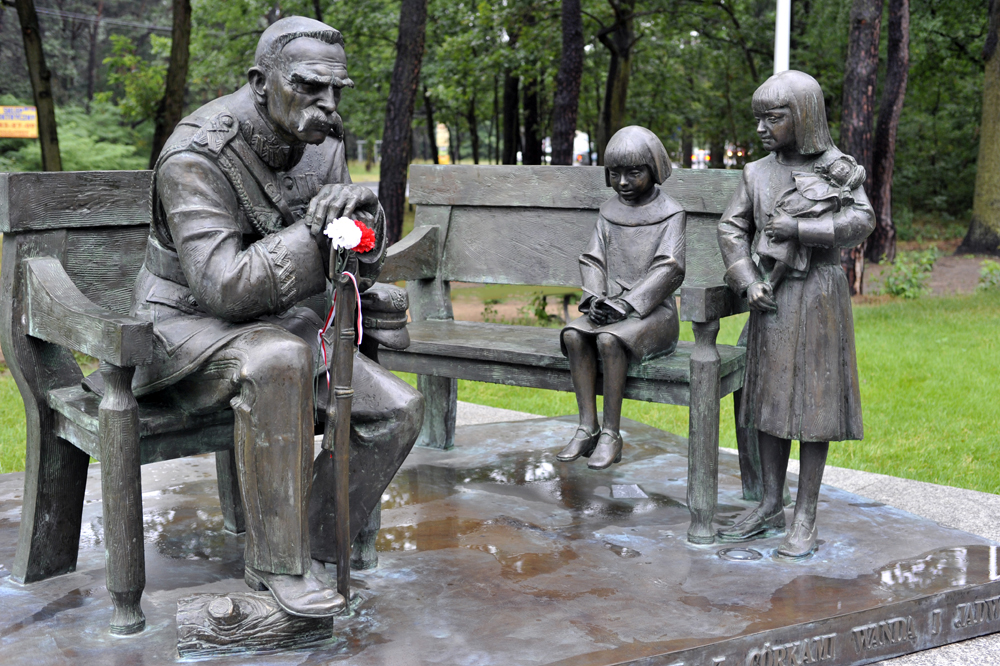 Jozef Pilsudski statue in Sulejowek, Poland.